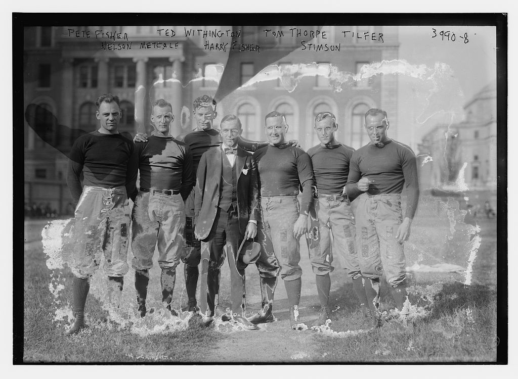 Bain News Service,, publisher. Pete Fisher, Ted Withington, Tom Thorpe, Tilfer, Nelson Metcalf, Harry Fisher, Stimson [between ca. 1915 and ca. 1920] 1 negative : glass ; 5 x 7 in. or smaller. Notes: Title from unverified data provided by the Bain News Service on the negatives or caption cards. Forms part of: George Grantham Bain Collection (Library of Congress). Format: Glass negatives. Repository: Library of Congress, Prints and Photographs Division, Washington, D.C. 20540 USA, General information about the Bain Collection is available at Higher resolution image is available (Persistent URL): Call Number: LC-B2- 3990-8